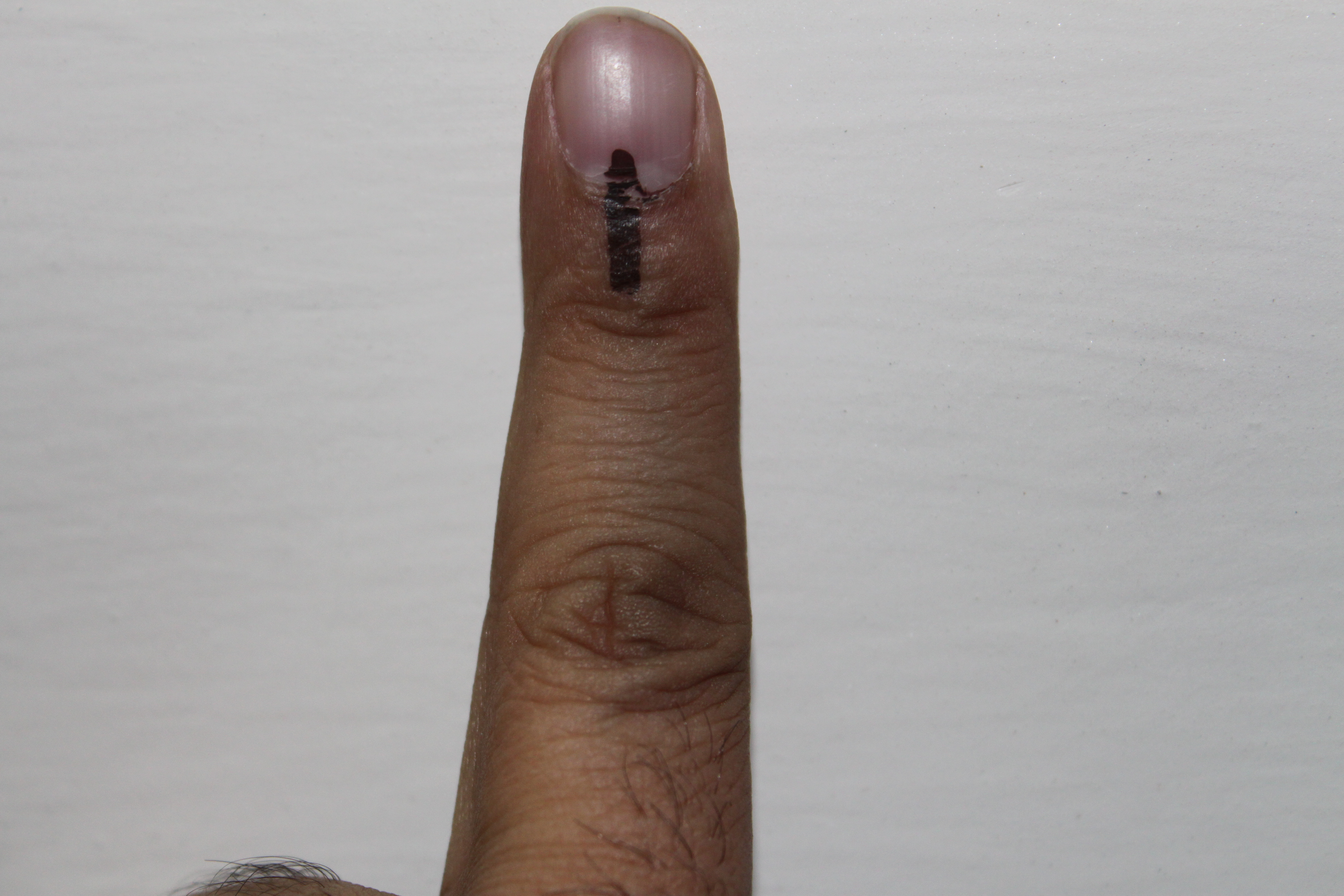 A finger showing Election ink used in India.